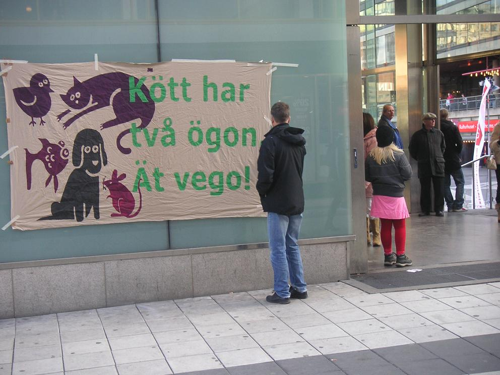 Animal Rights banner which says "Meat has two eyes. Eat veggie!", Stockholm, Sweden